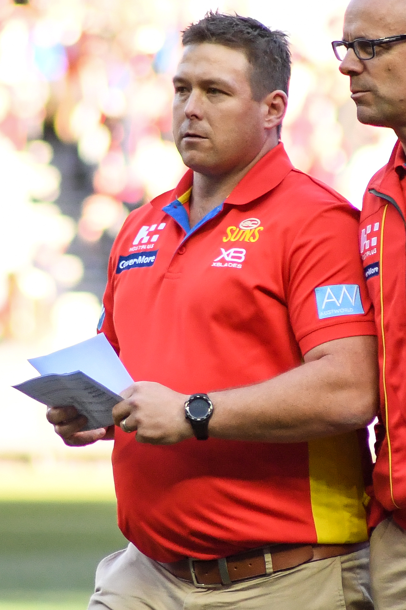 Stuart Dew of Gold Coast during the 2018 AFL round 20 match between Melbourne and Gold Coast at the Melbourne Cricket Ground on Sunday, 5 August 2018 in Melbourne, Victoria.